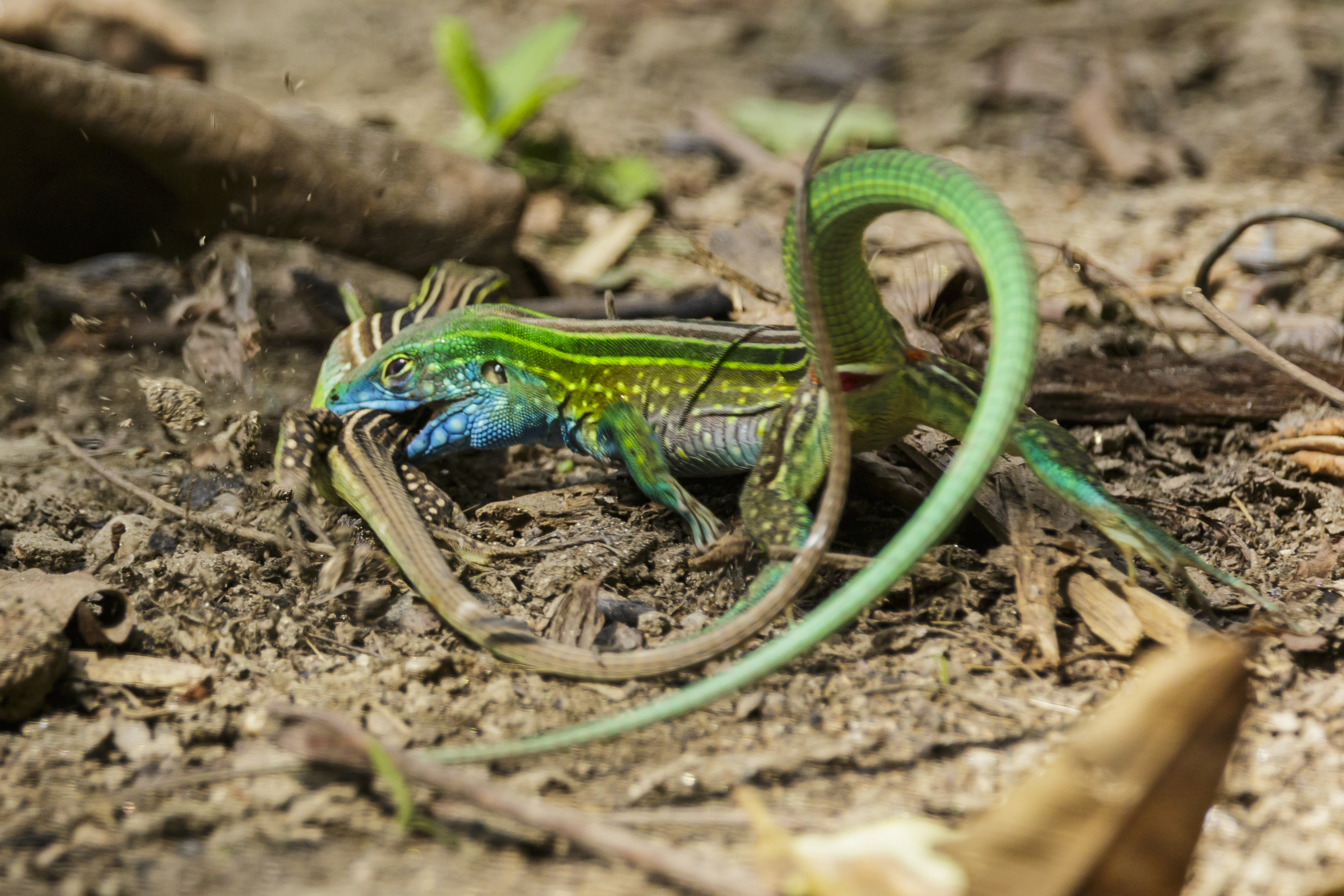 PanAmericana 2017 - the image was taken on an overlanding travel from Ushuaia to Anchorage - taken by Thomas Fuhrmann, SnowmanStudios - see more pictures on / mehr Aufnahmen auf Esta fotografía fue tomada en un área protegida de Colombia con el código 25 del RUNAP.